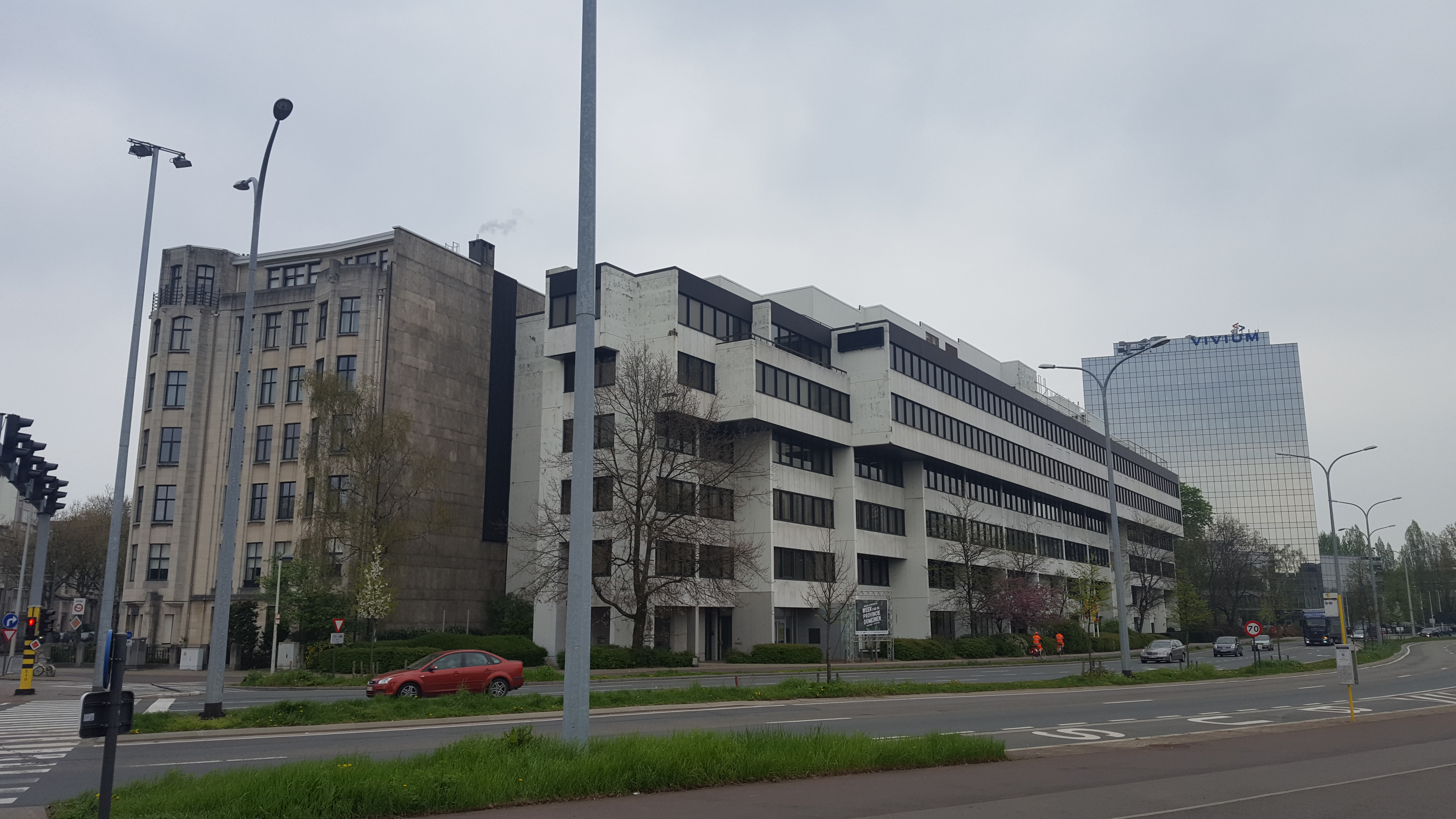 province building Provinciehuis aan de Singel, Antwerp, Belgium